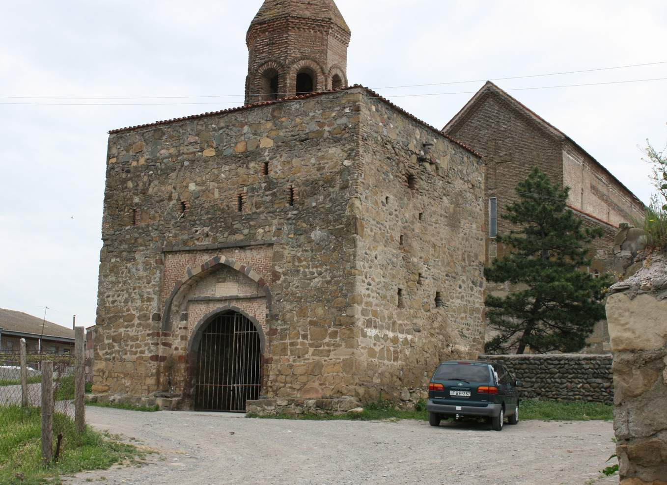 Urbnisi monastery. Entrance